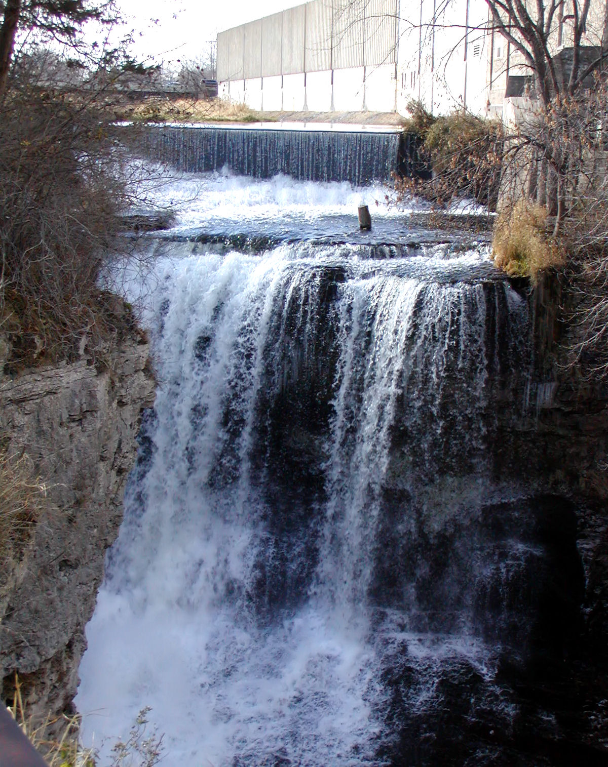 taken by William Wesen Category:Images of Minnesota